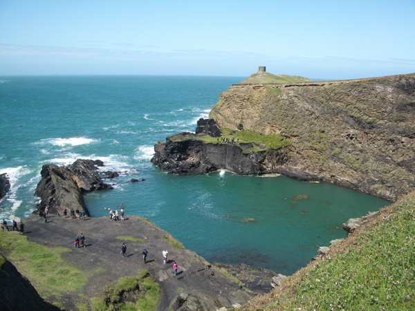 Abereiddy: the Blue Lagoon, with 'Coasteers' diving Rather them than me...